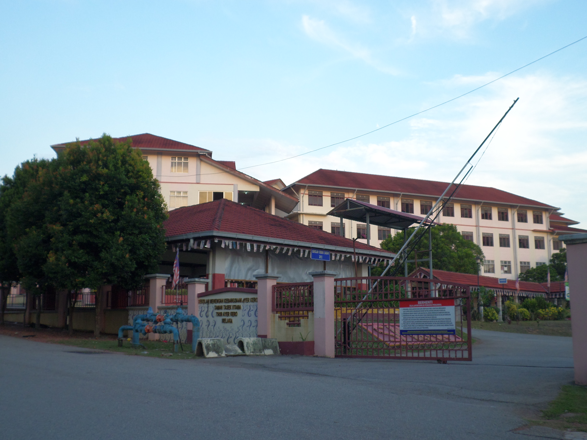 Ayer Keroh National High School, Ayer Keroh, Malacca, MalaysiaBahasa Melayu: Sekolah Menengah Kebangsaan Ayer Keroh, Ayer Keroh, Melaka, Malaysia